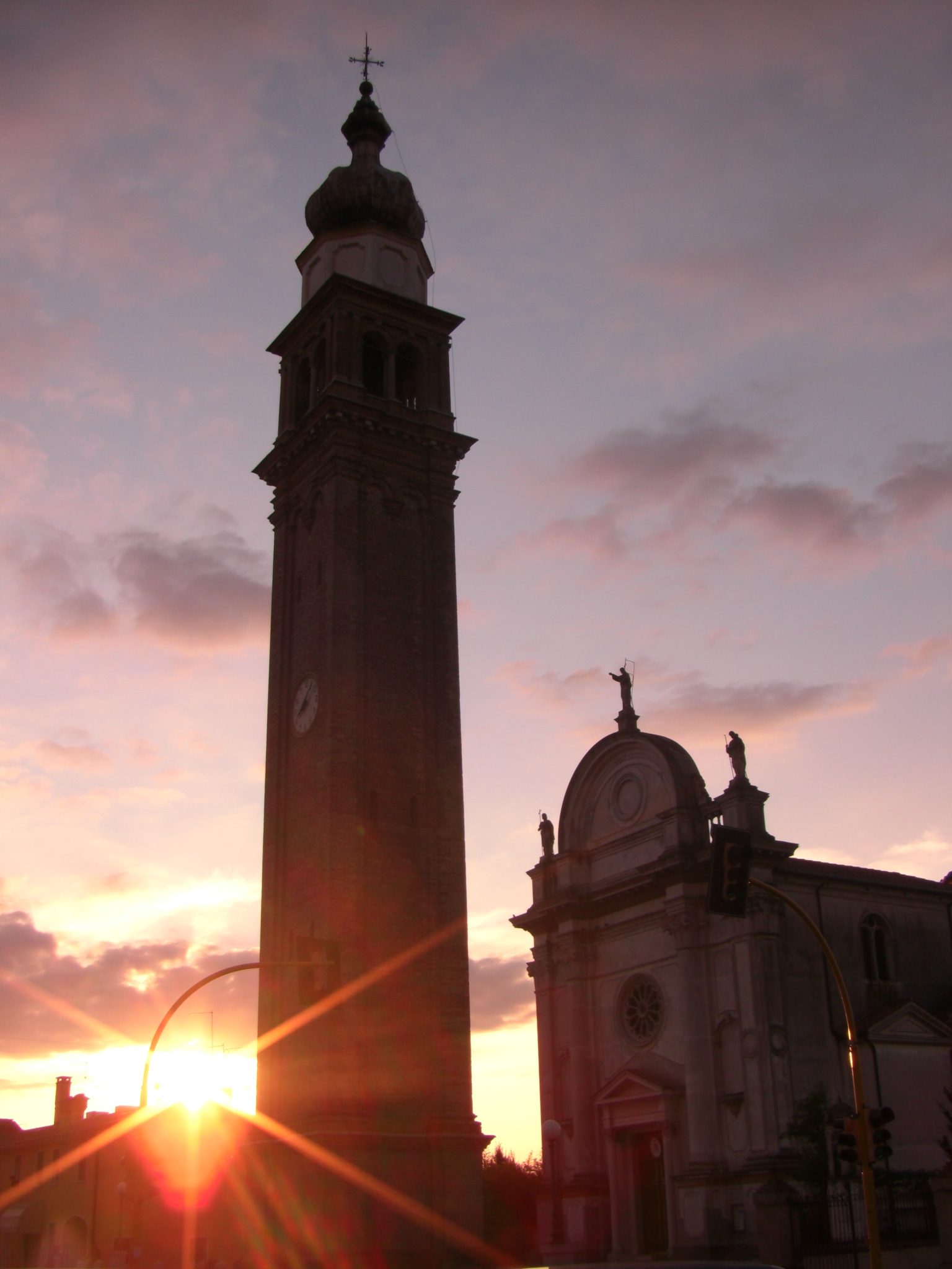 San Giovanni Battista's church in Cappella di Scorzè